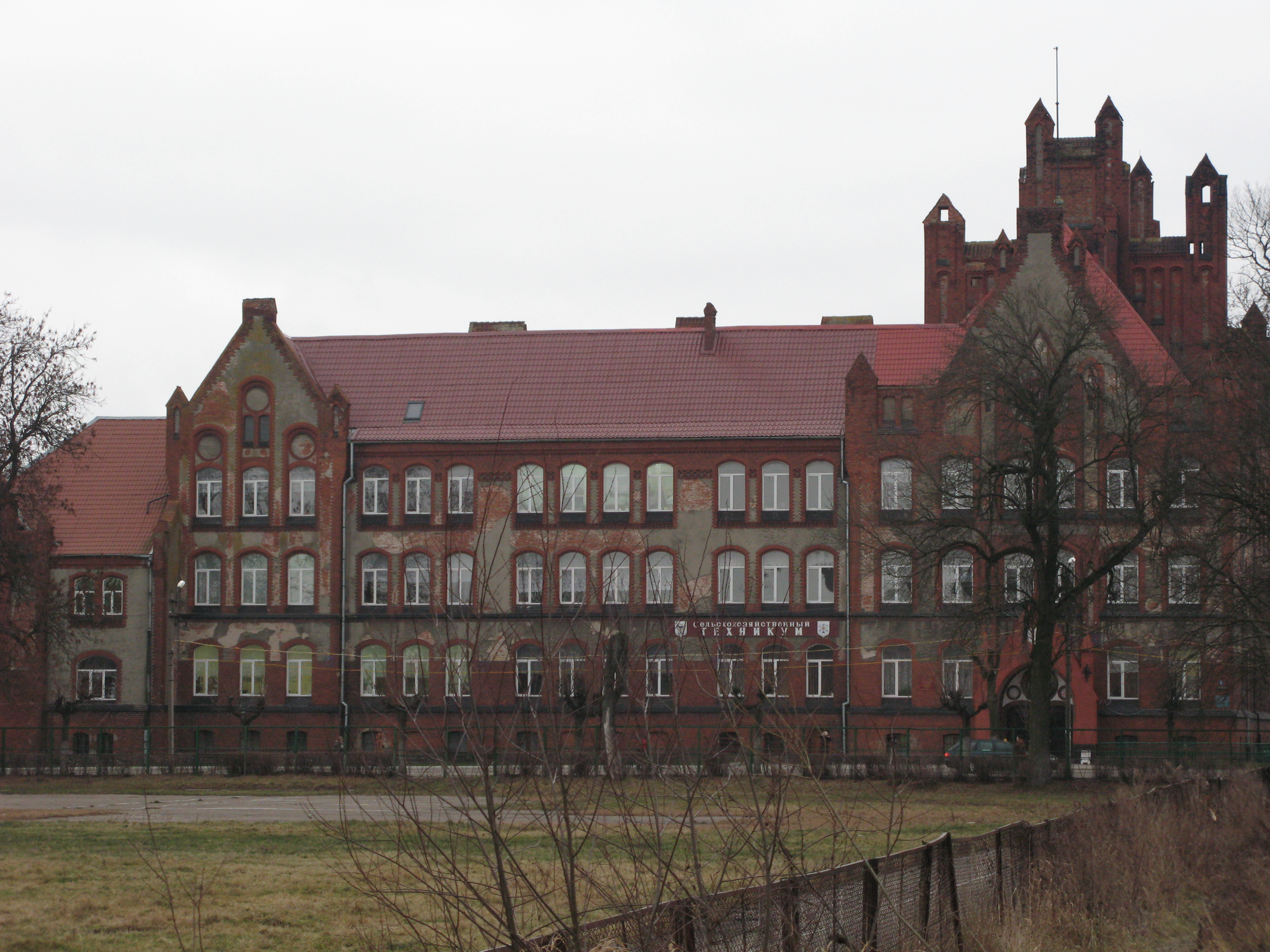 Agricultural secondery school (town Gusev)